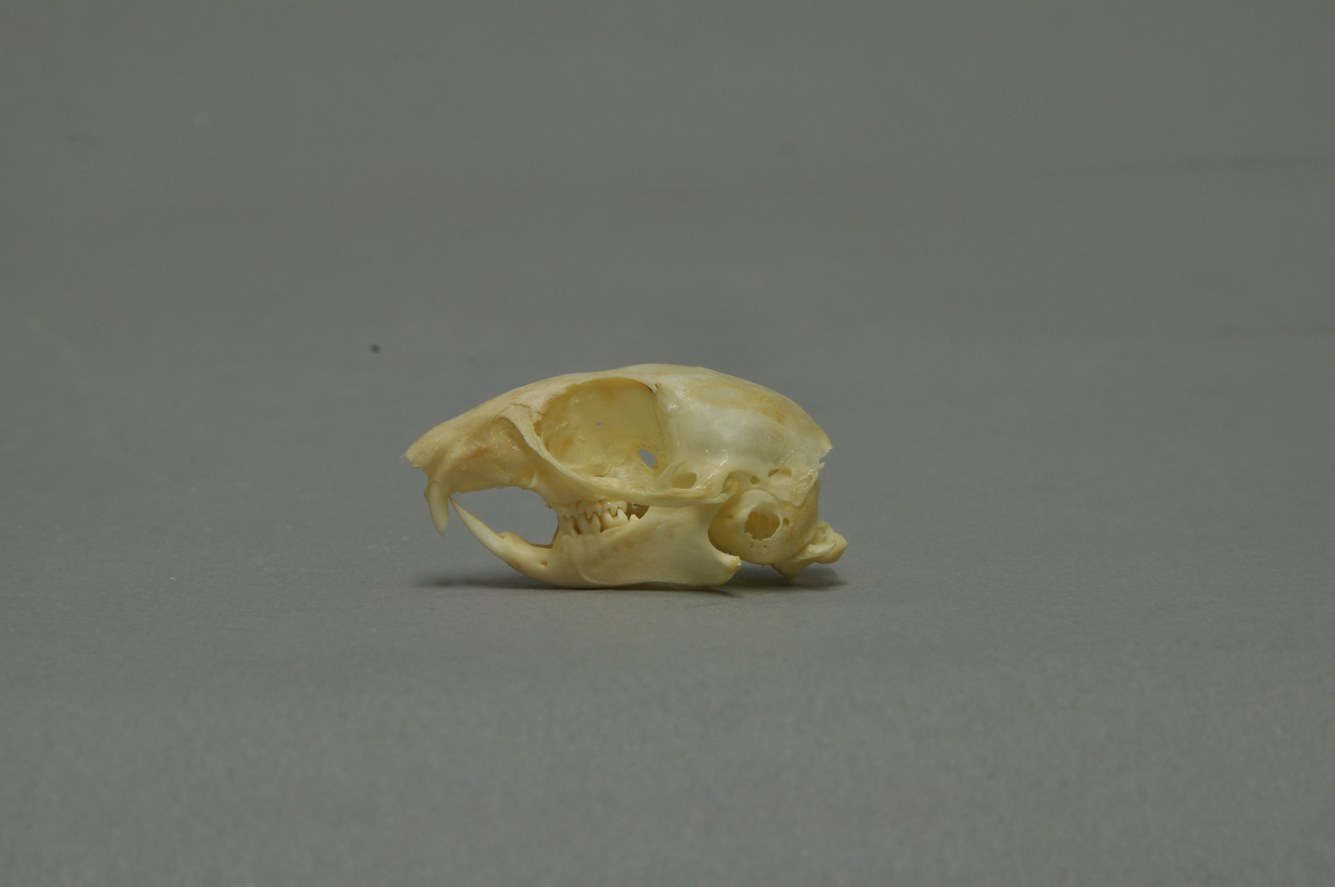 European ground squirrel Spermophilus citellus, skull, Coll. Museum Wiesbaden